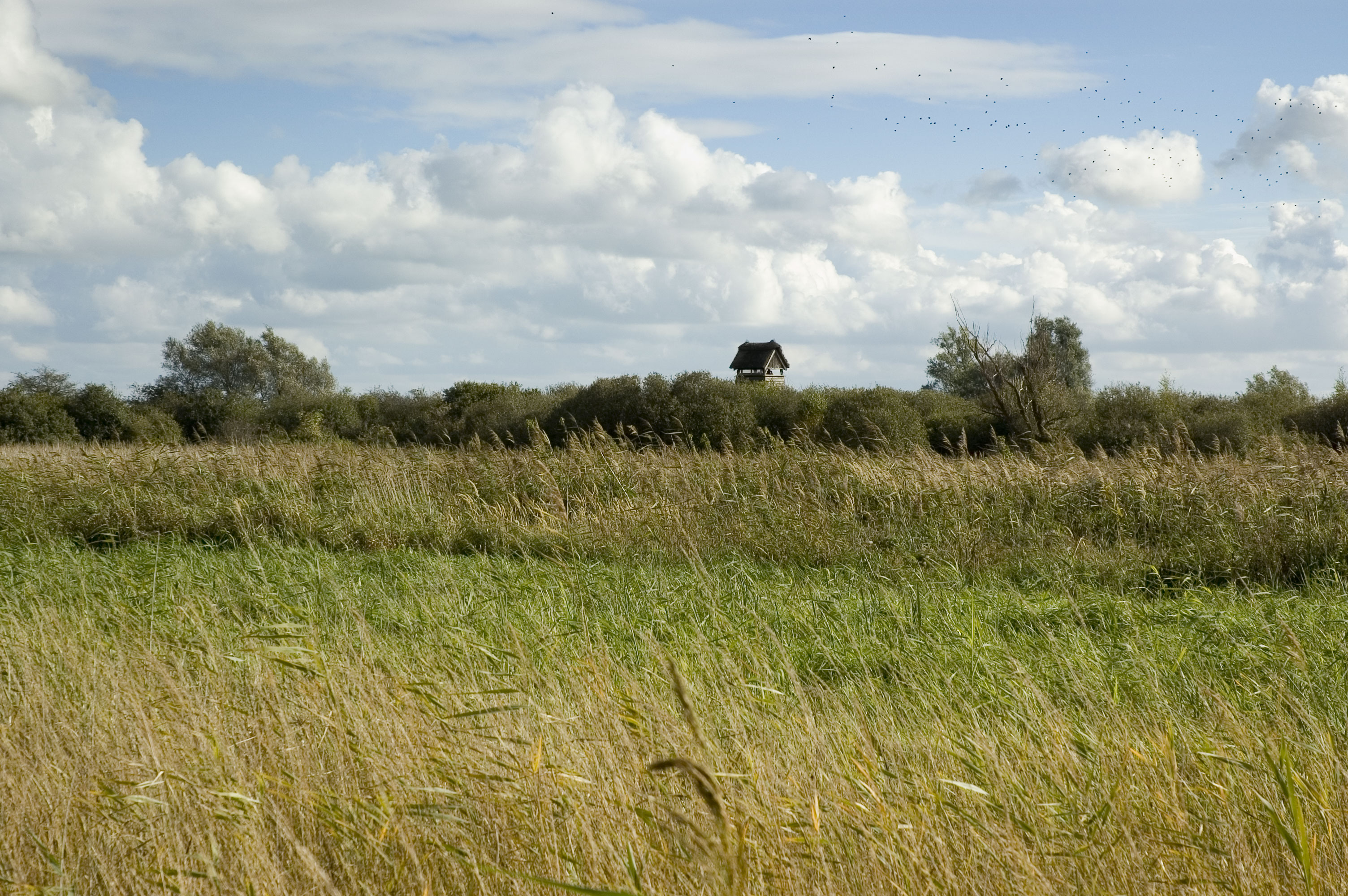 Wicken Fen showing one of the many hides on the fen. Photographed by Paul Tuli on 23rd October 2005.